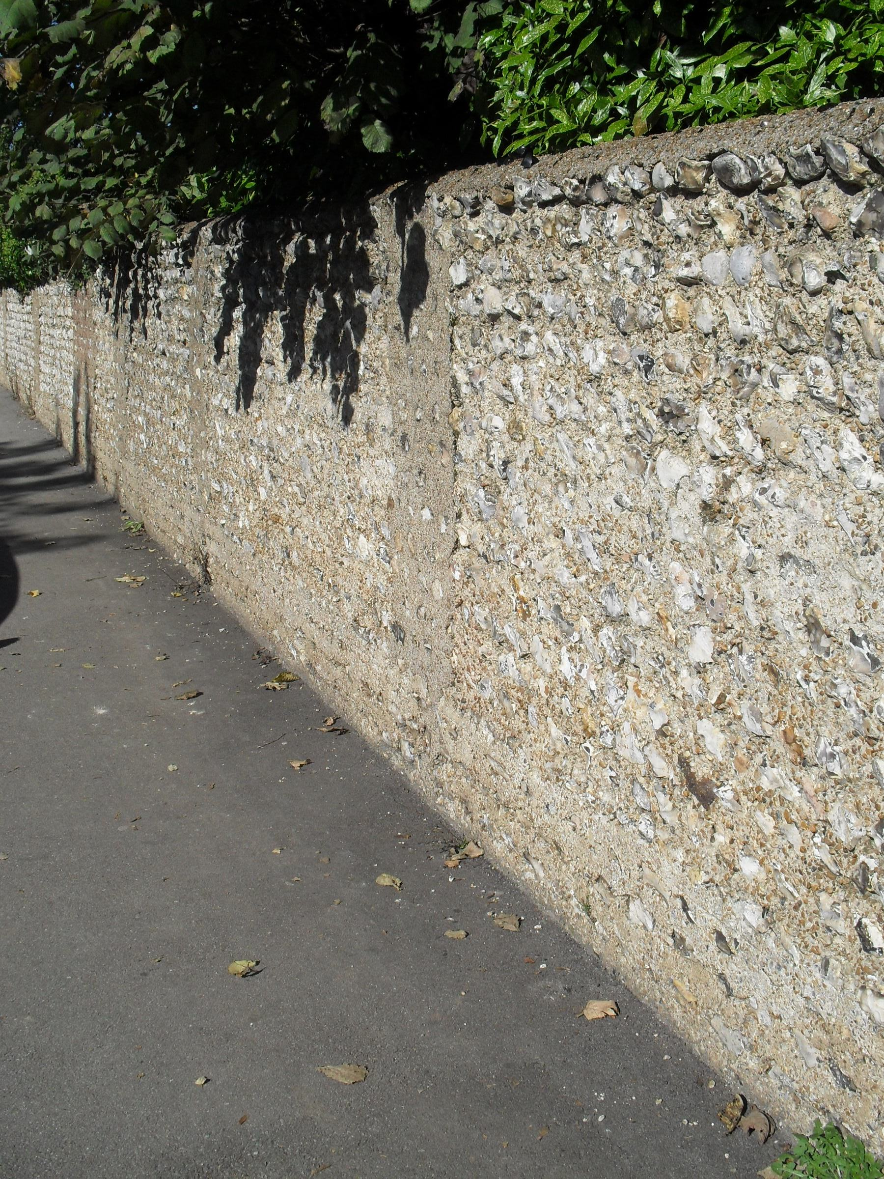 Flint boundary walls at the British Engineerium, The Droveway, West Blatchington, Hove, City of Brighton and Hove, England. The Engineerum was formerly the Goldstone Pumping Station, a waterworks built in 1866. Listed at Grade II by English Heritage (IoE Code 365681)